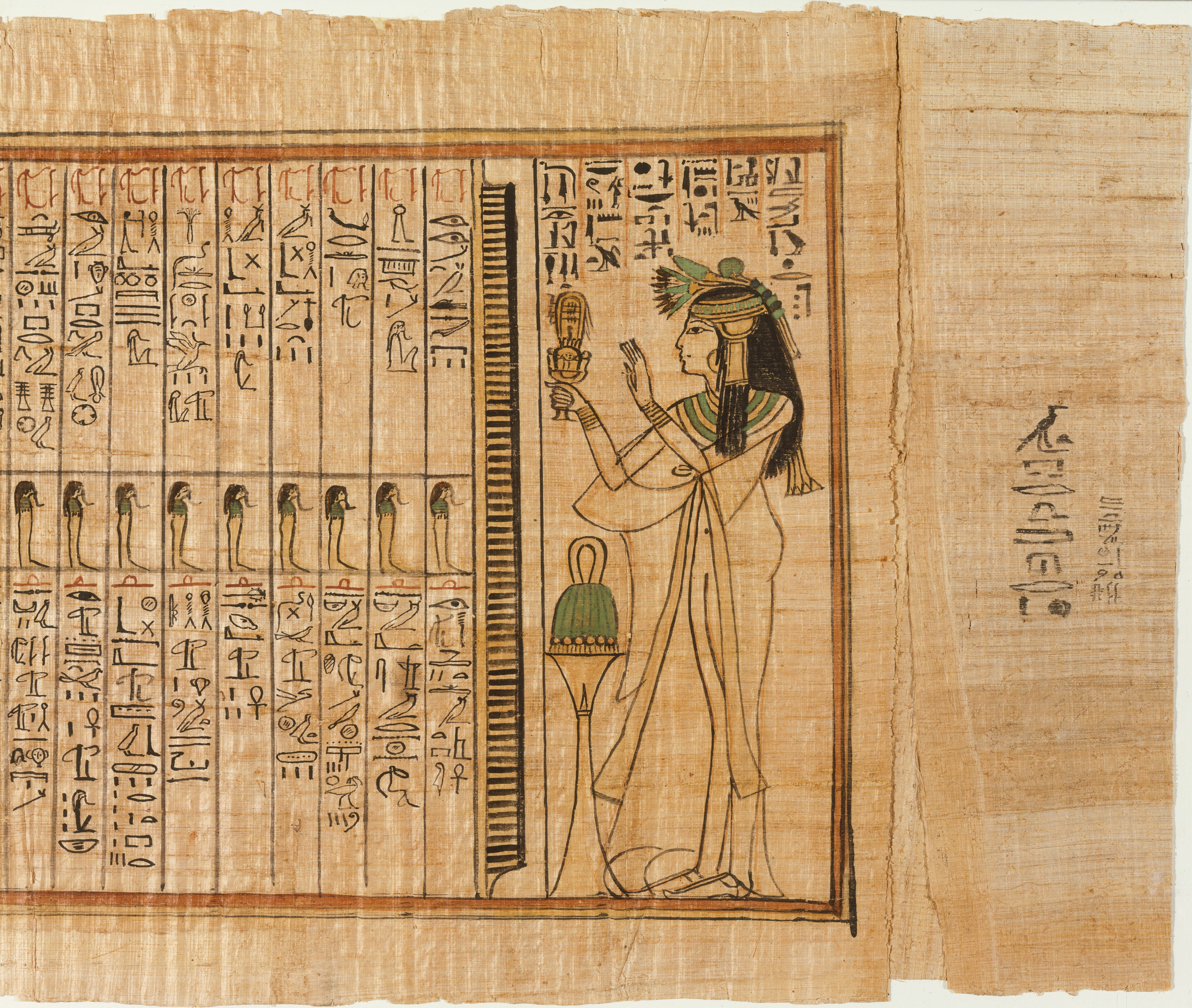 Papyrus, Nany, "Book of the Dead"